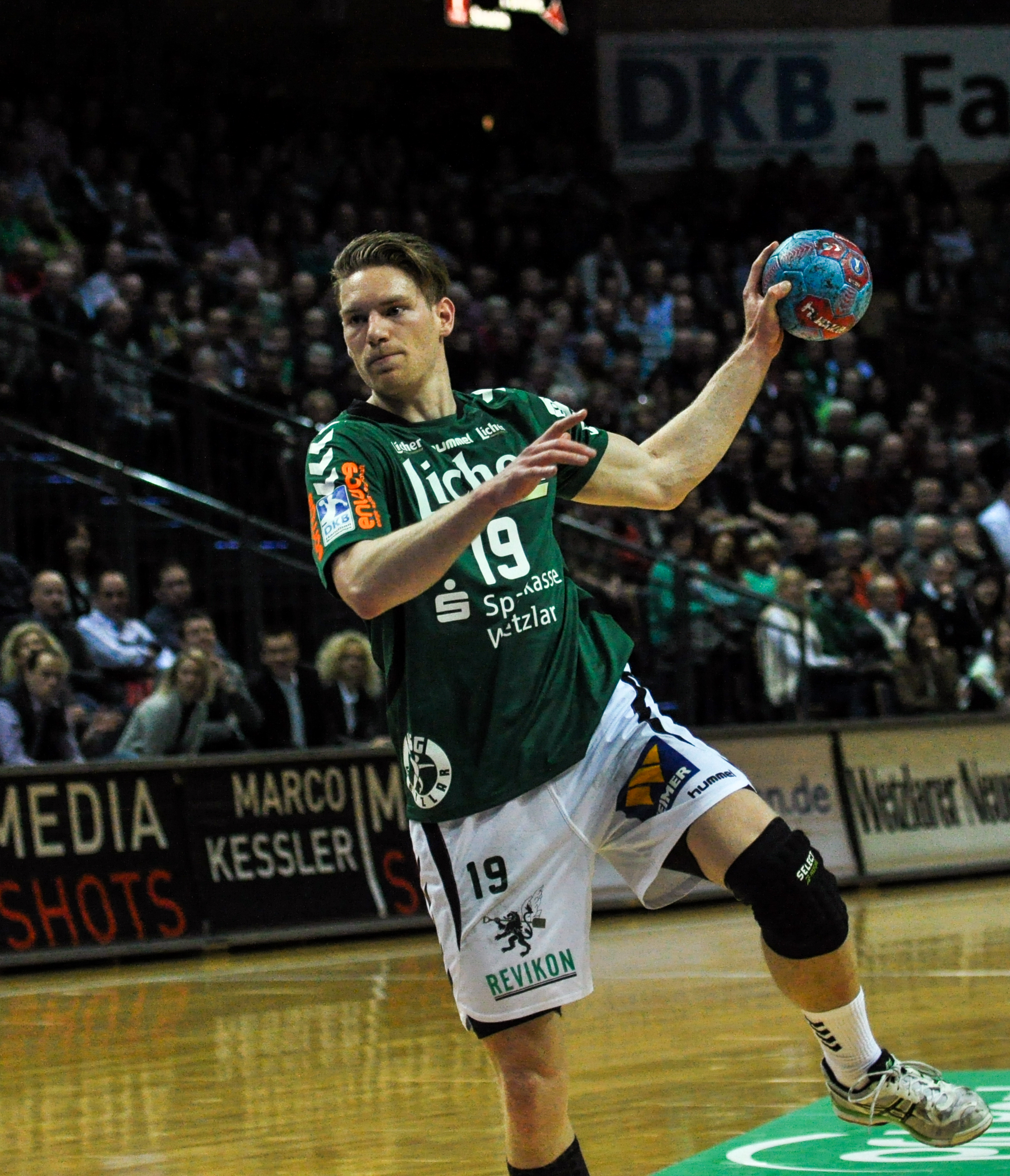 taken on February 8, 2014 during DKB Handball-Bundesliga match between HSG Wetzlar and HSV Hamburg